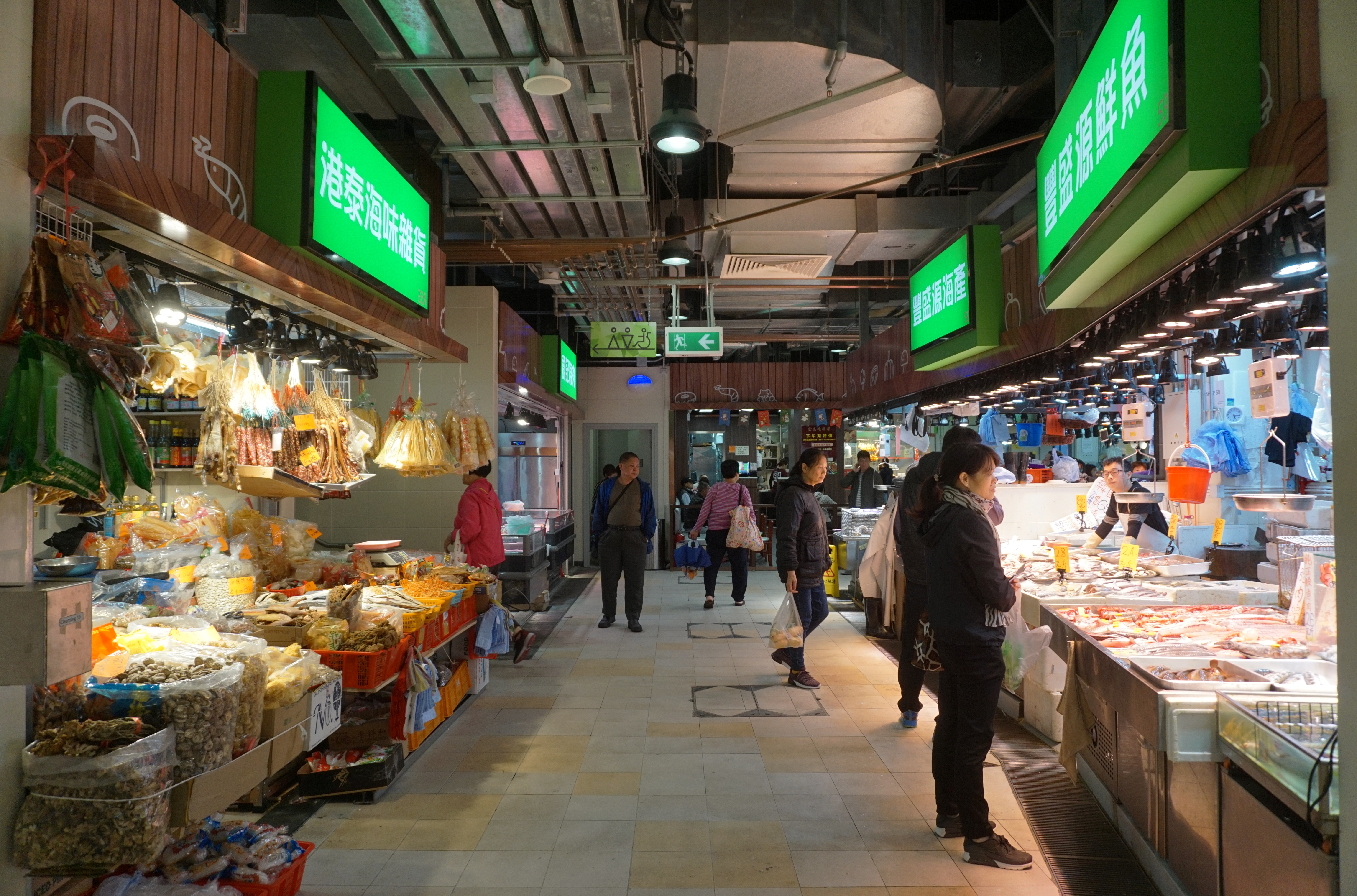 On Tai Market in Sau Mau Ping, Hong Kong.